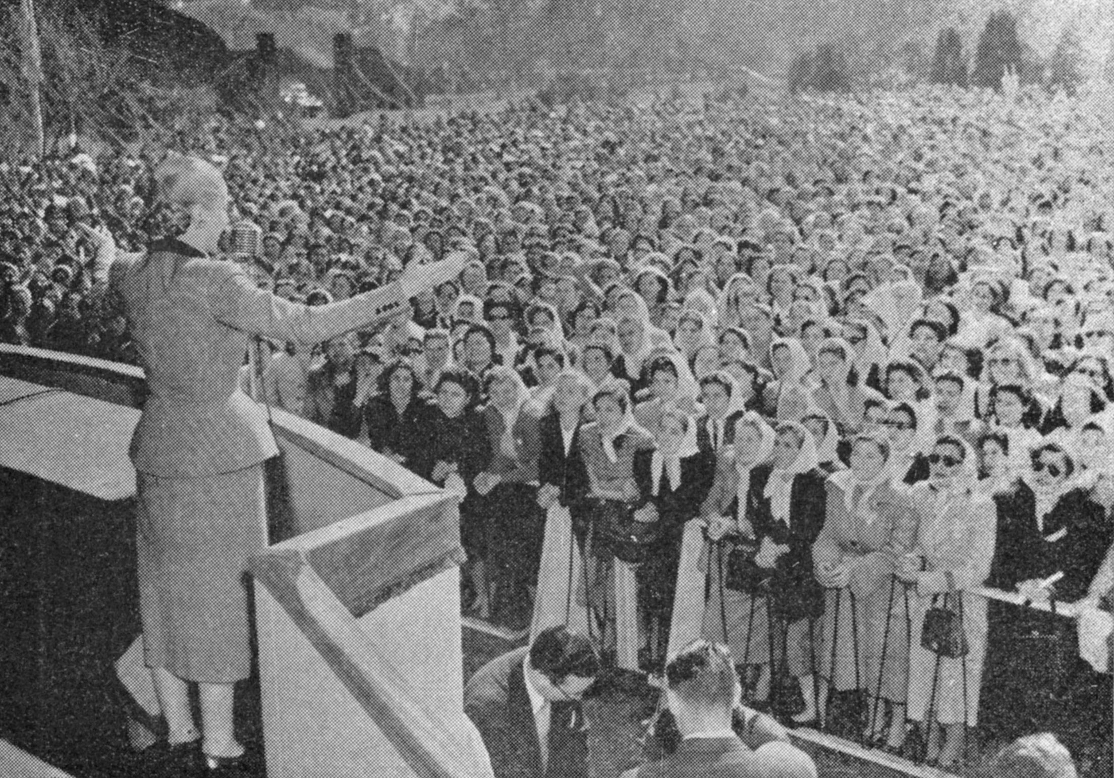 Evita giving a speech before a crowd of women